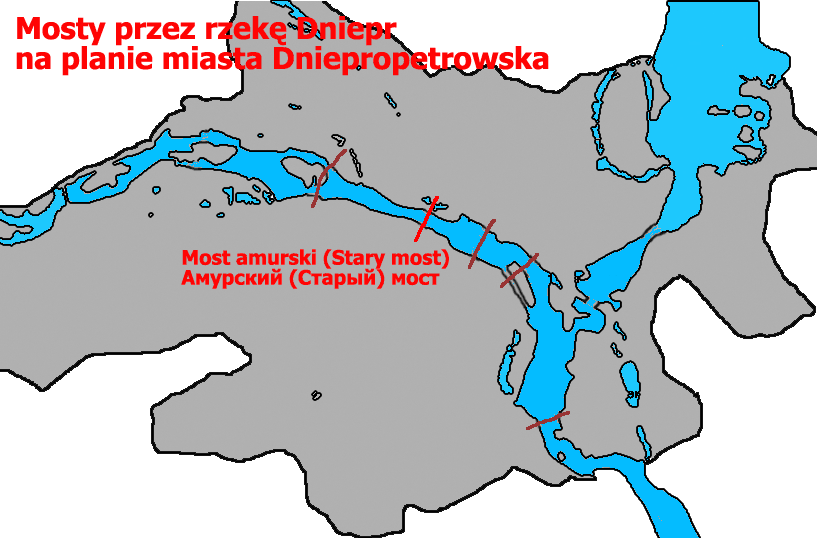 Amursky bridge in Dnipropetrovsk